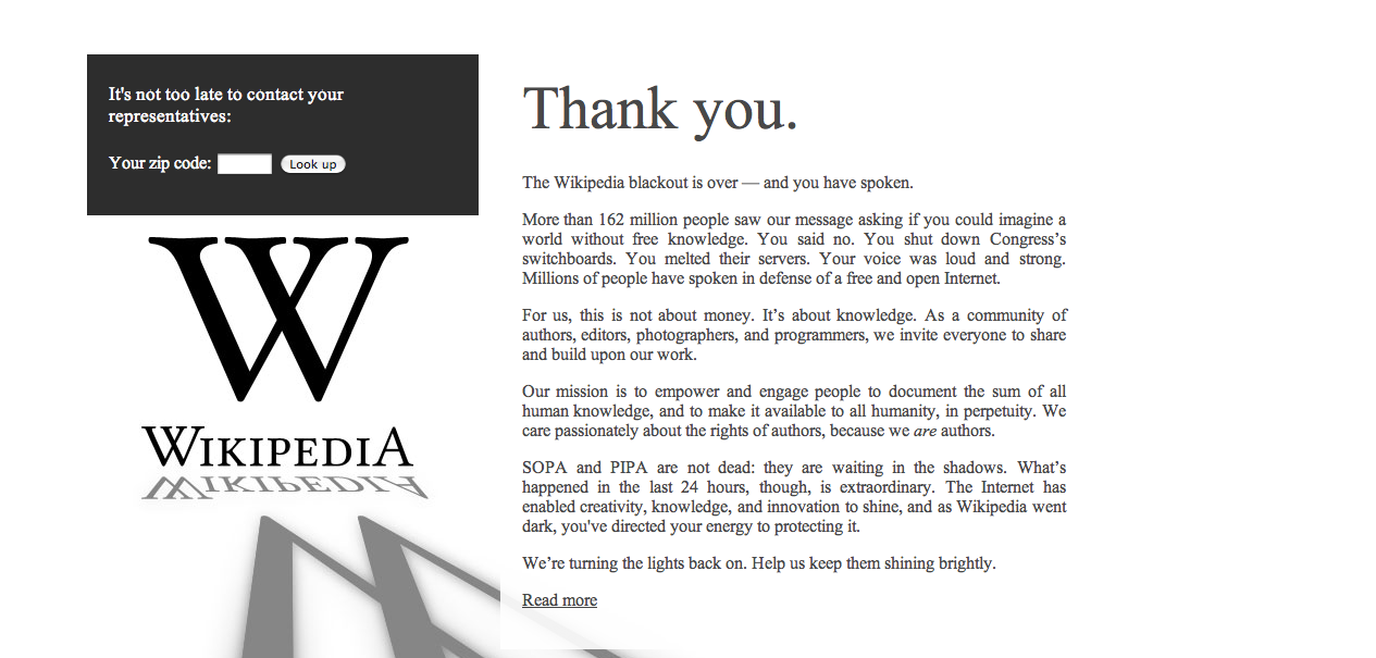 Screenshot of English Wikipedia following the SOPA/PIPA protests.